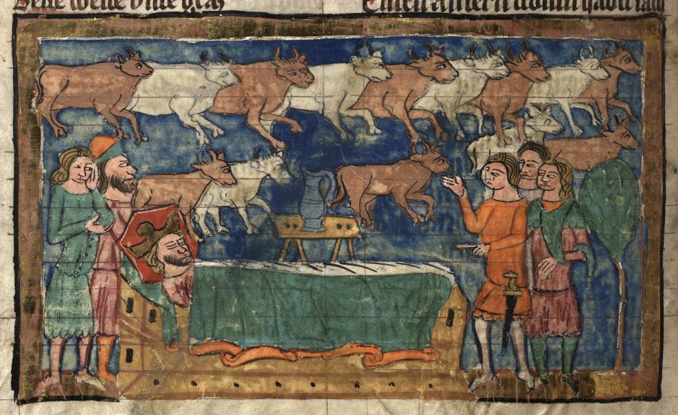 The pharao dreams of seven years of abundance followed by seven years of famine